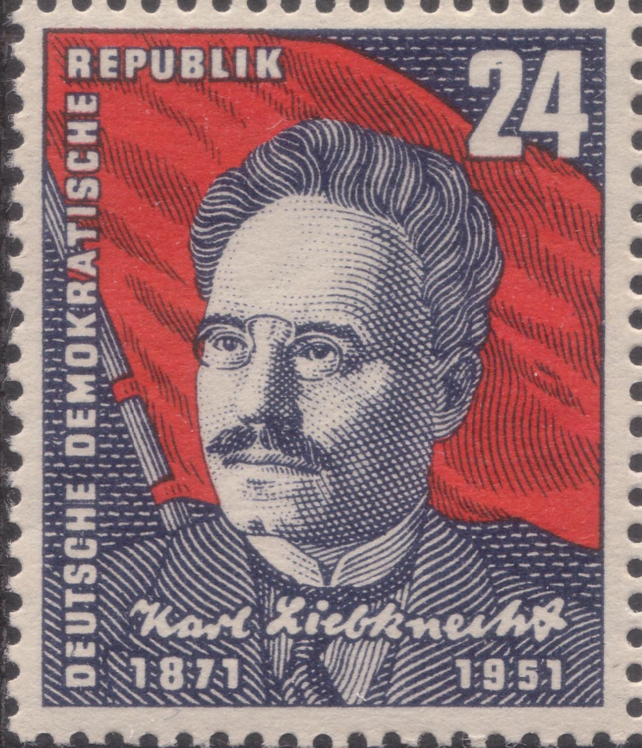 80th birthday of Karl Liebknecht Graphic designer: Georg Koch Ausgabepreis: 24 Pf First Day of Issue / Erstausgabetag: 7. Oktober 1951 Michel-Katalog-Nr: 294